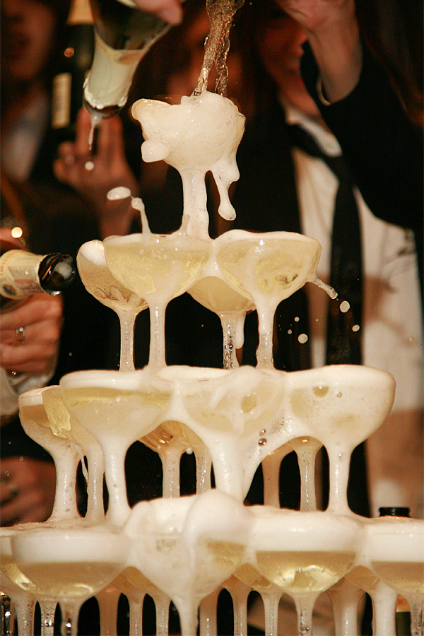 A tower of champagne being poured into coupe glass at a club in Japan.